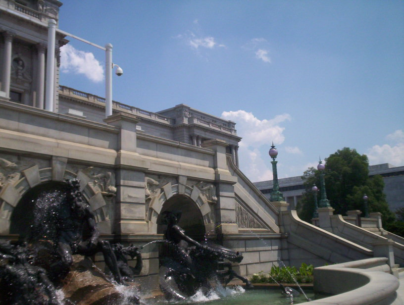 Library of Congress, Washington, D.C., United States